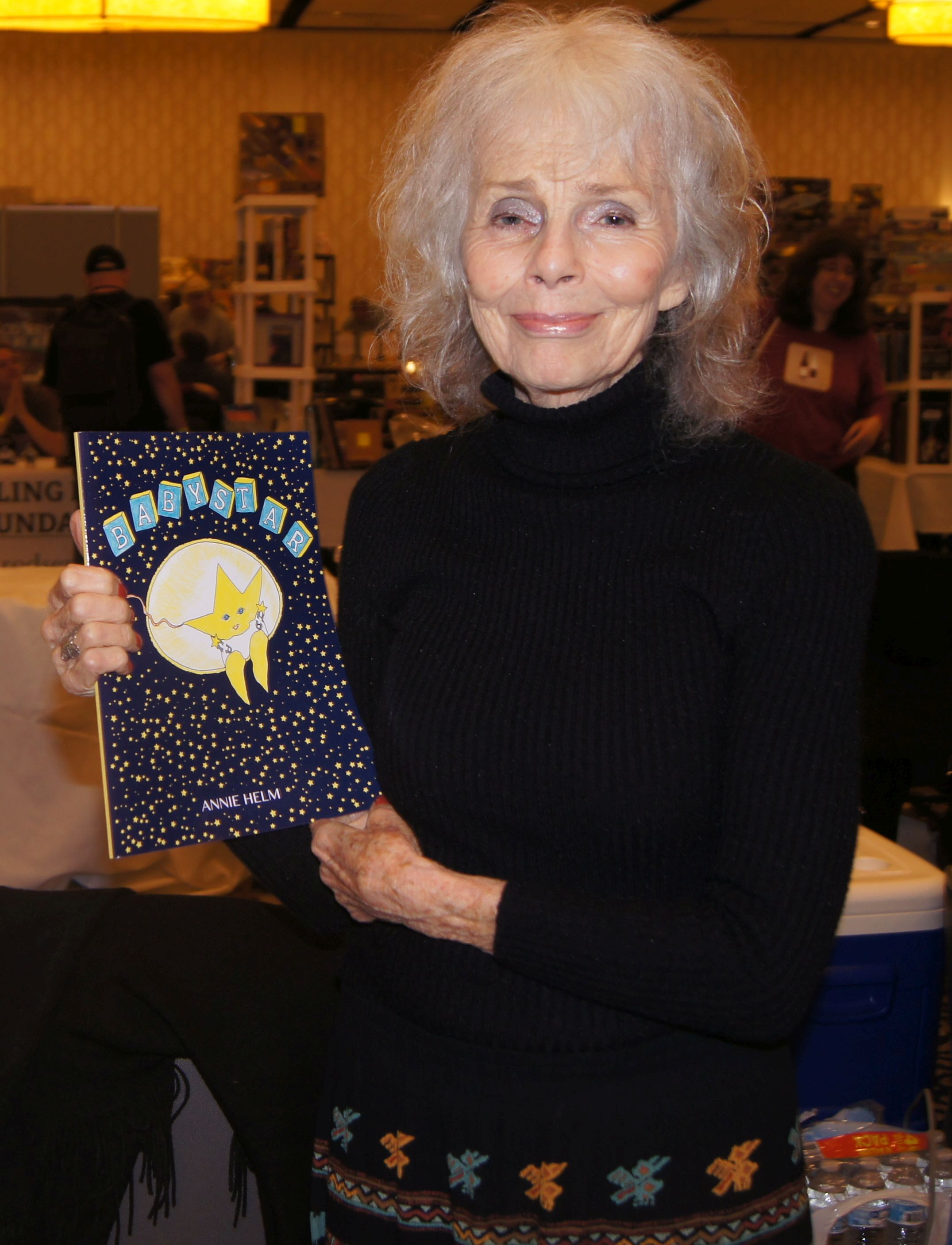 Mid Atlantic Nostalgia conv Hunt Valley M.D. Sept 2019